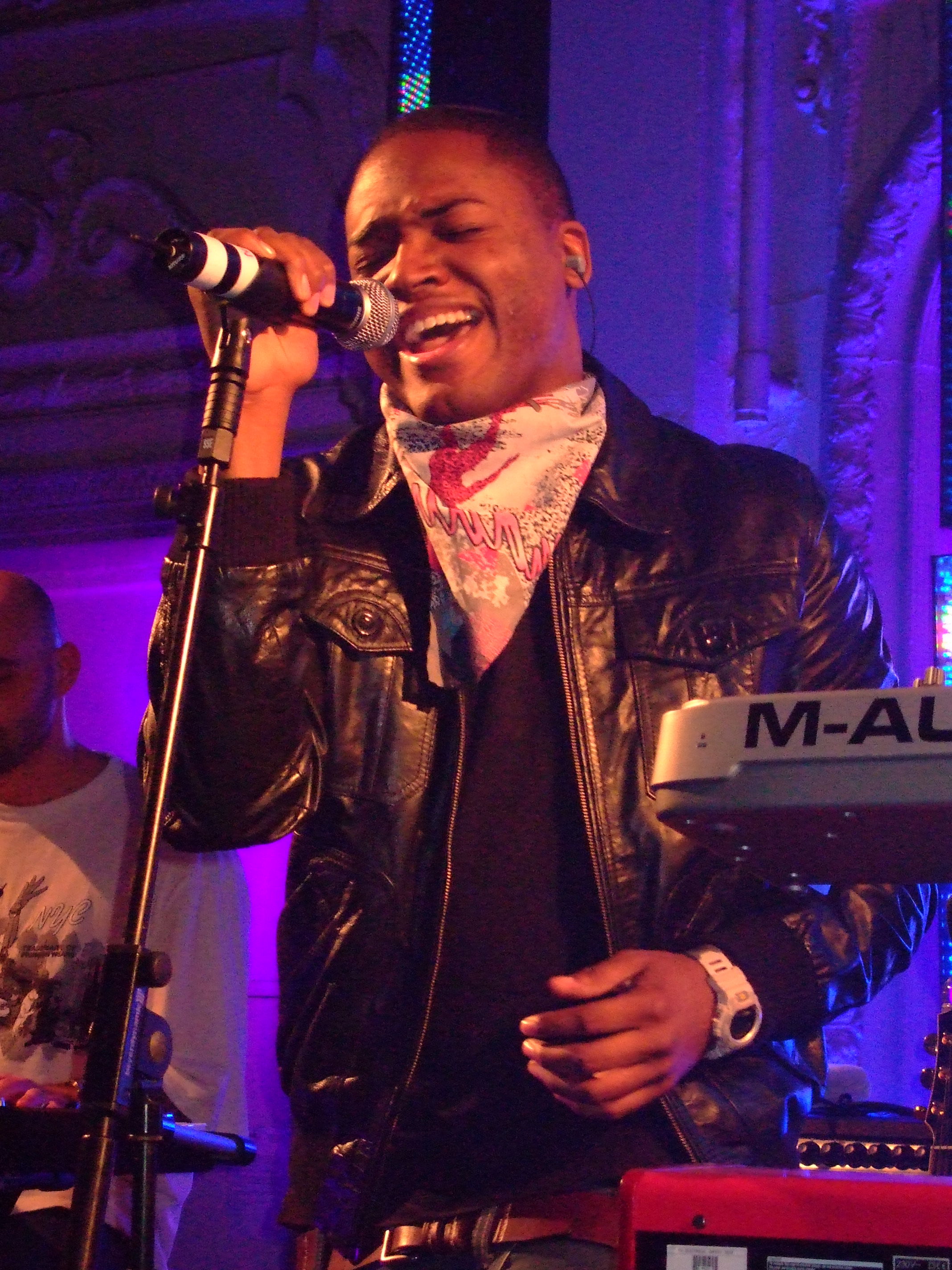 Taio Cruz at Bush Hall, London, 19 March 2008